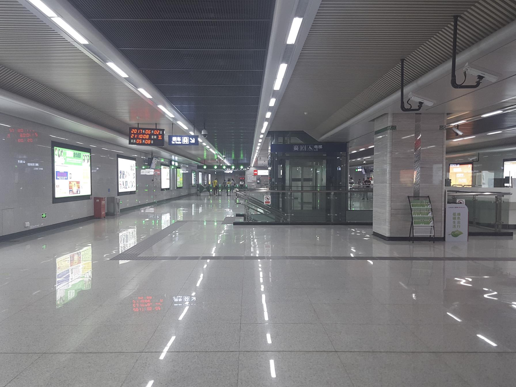 Concourse of Jian'gang Station, Wuhan Metro